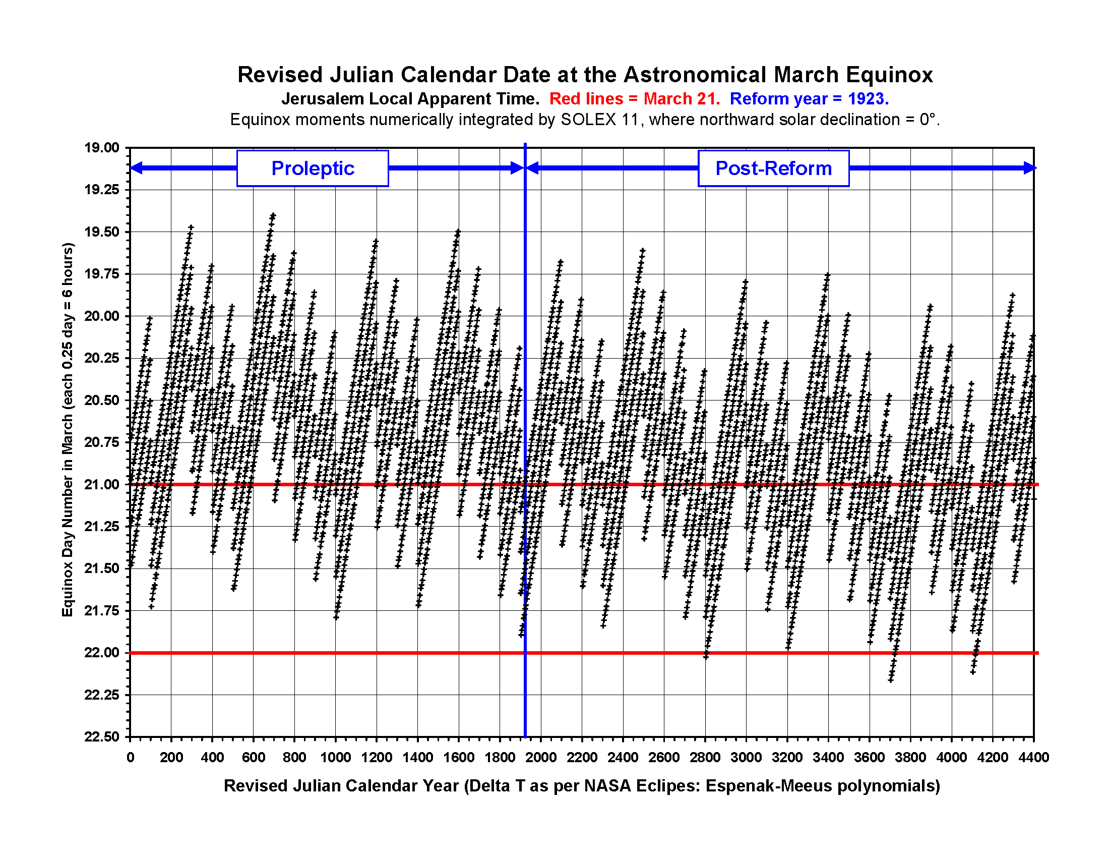 Depicts the numerically integrated northward equinox relationship for the Revised Julian calendar, computed for Jerusalem Local Apparent Time.